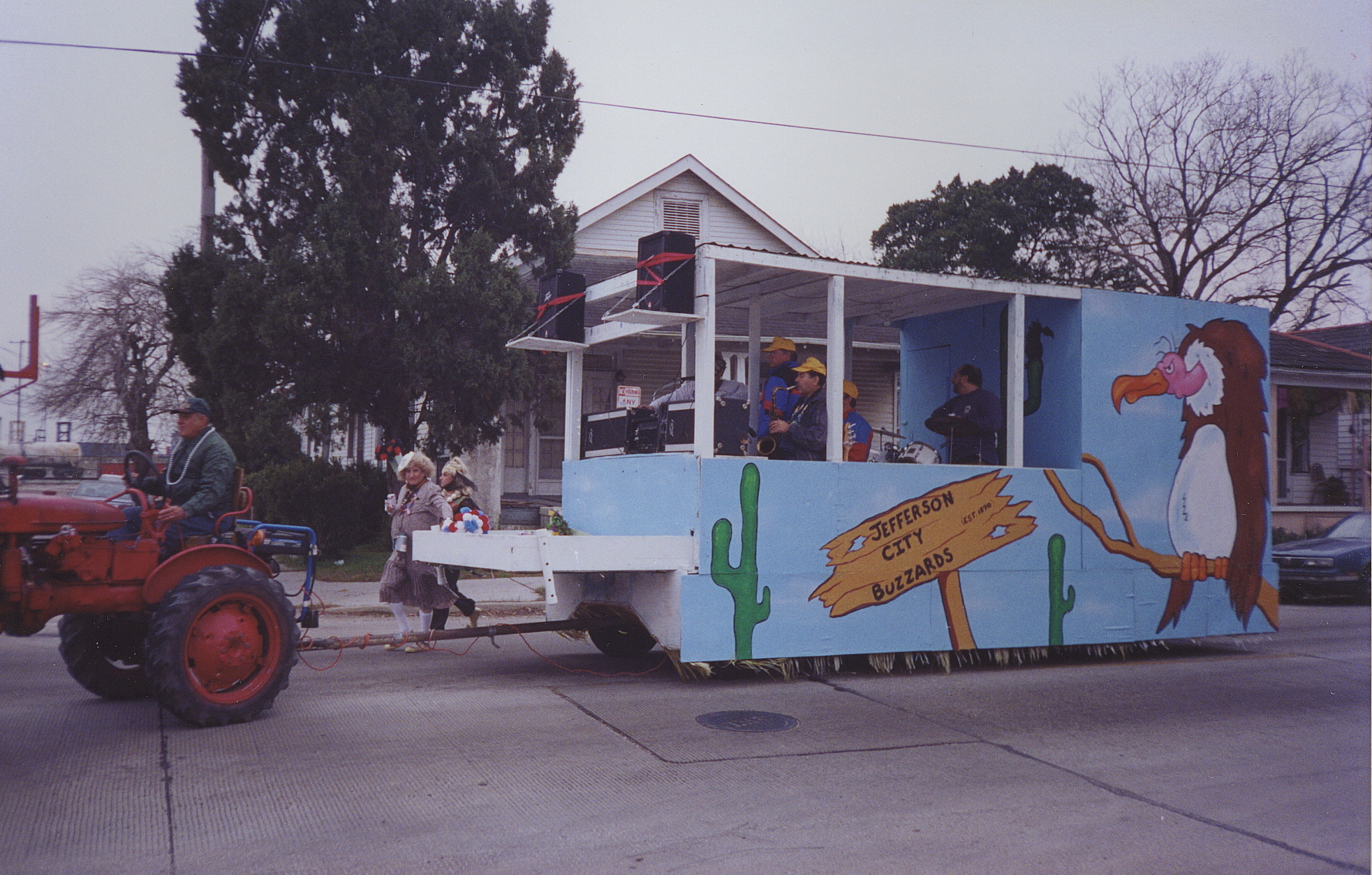 New Orleans Carnival season: Jefferson City Buzzards Uptown practice parade.